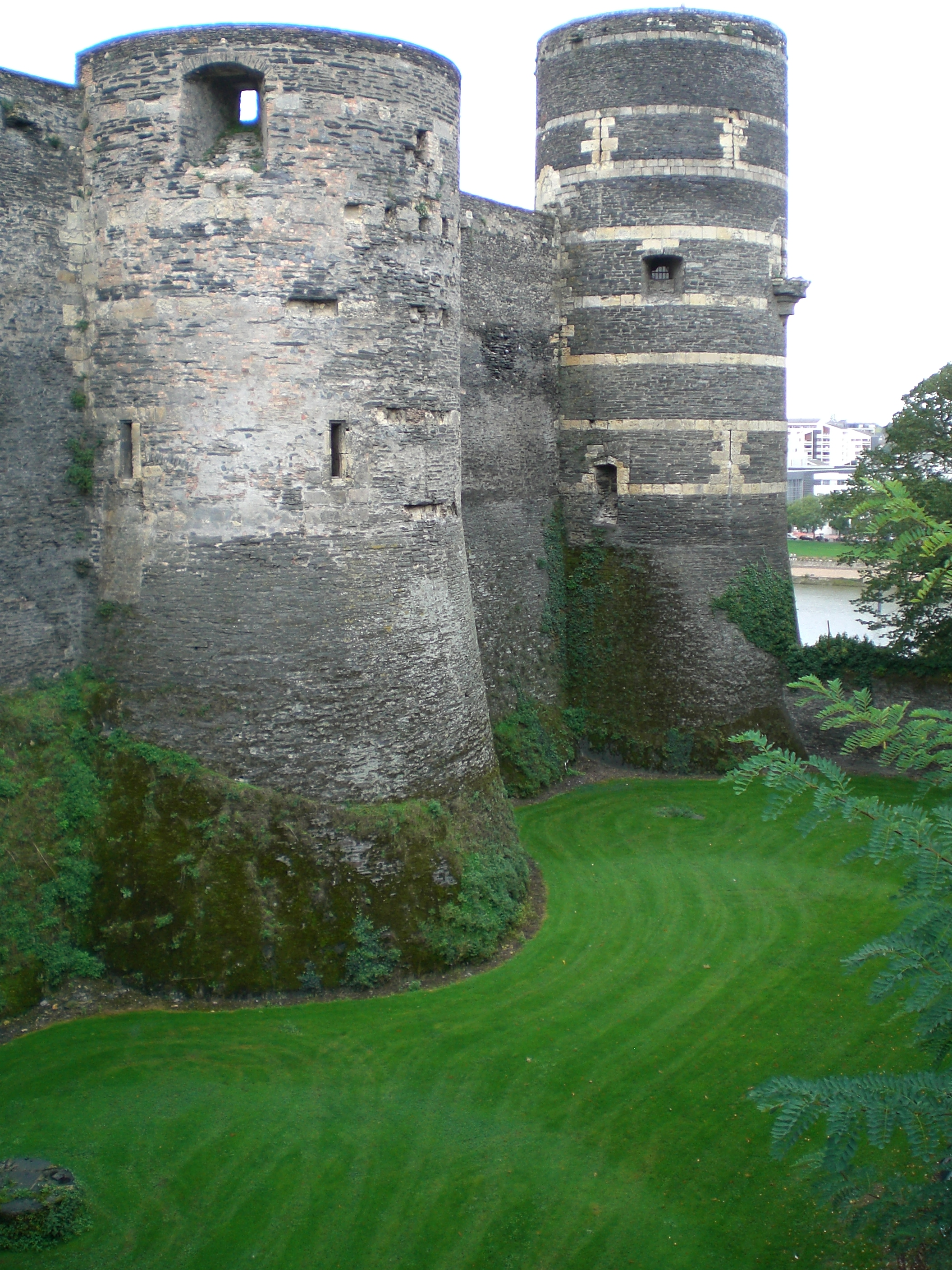 L'intérieur du Château d'Angers vue de la porte. It is indexed in the Base Mérimée, a database of architectural heritage maintained by the French Ministry of Culture, under the references IA49000839 and PA00108871.